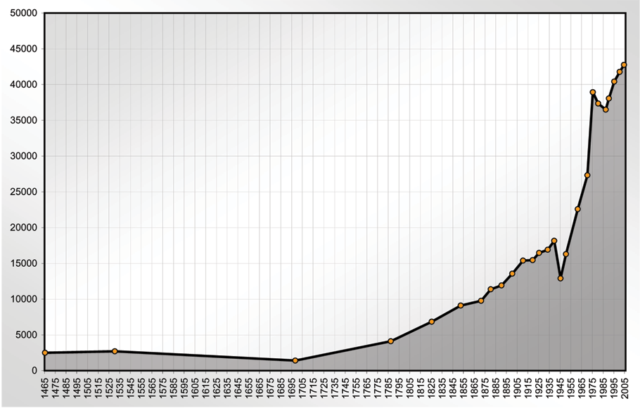 This image shows the population statistics for Bruchsal, Germany. The .xls source file is available upon request. Created by Tina Bach aka User:Mmounties Date 2006-03-15